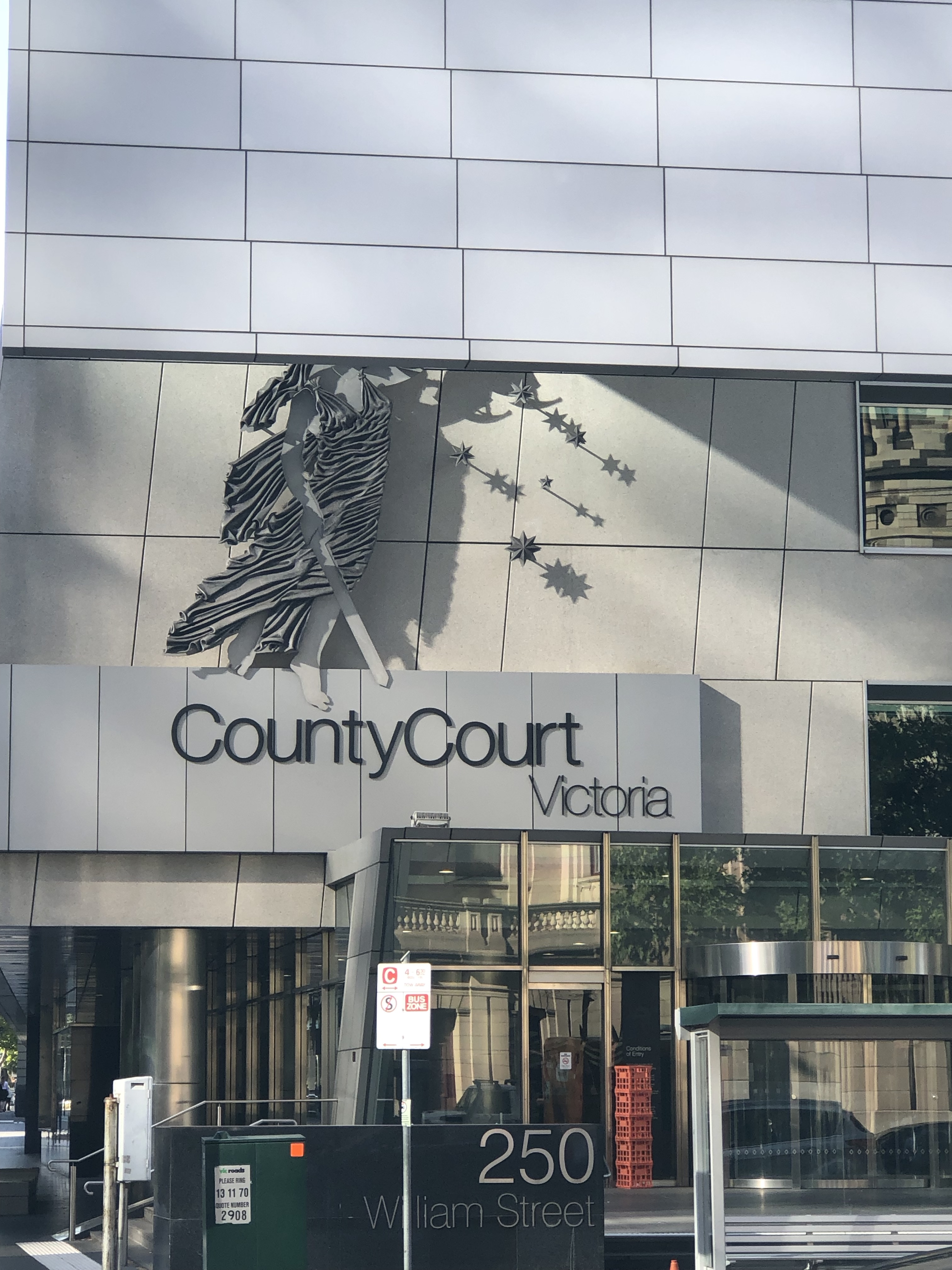 Main entrance of the County Court of Victoria at 250 William Street, Melbourne, Australia.